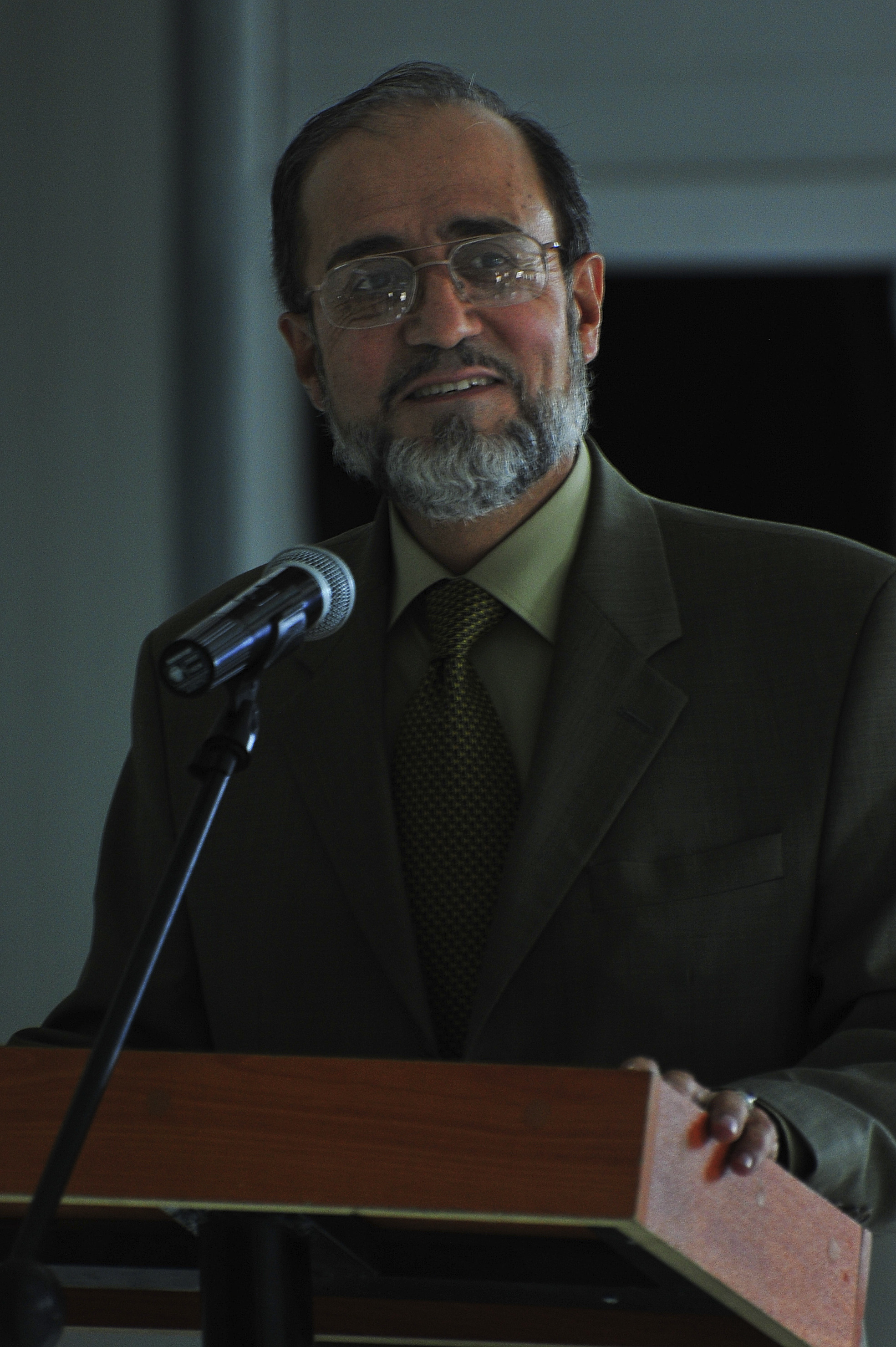 Kabul Governer Zebiullah Mucaddidi gives a speech during the Civilian Military Cooperation handcraft vocational courses ceremony at Camp Dogan, Afghanistan, Aug. 16, 2010. During the ceremony 177 students received their certificates for completing six to nine months of vocational training. (ISAF photo by U.S. Air Force Staff Sgt. Joseph Swafford)